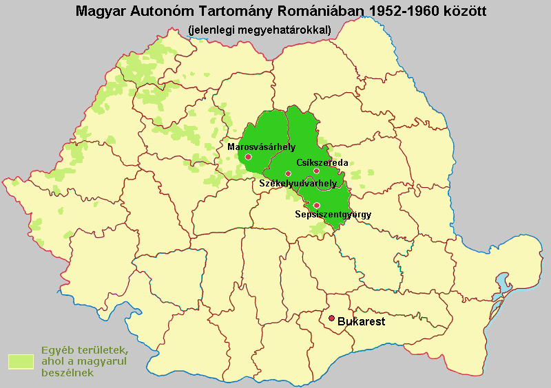 Magyar Autonomous Region (Romania, 1952-1960) and other areas where hungarian is spoken